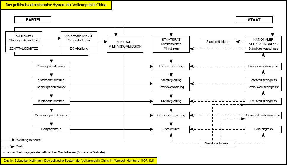 The political administrative System of the People's Republic of China